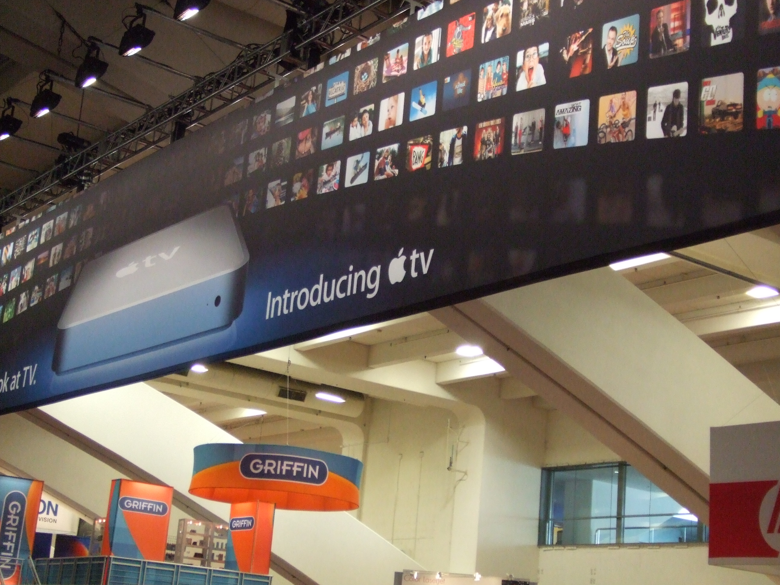 Macworld San Francisco 2007, Moscone Center, Banner "Introducing Apple TV"